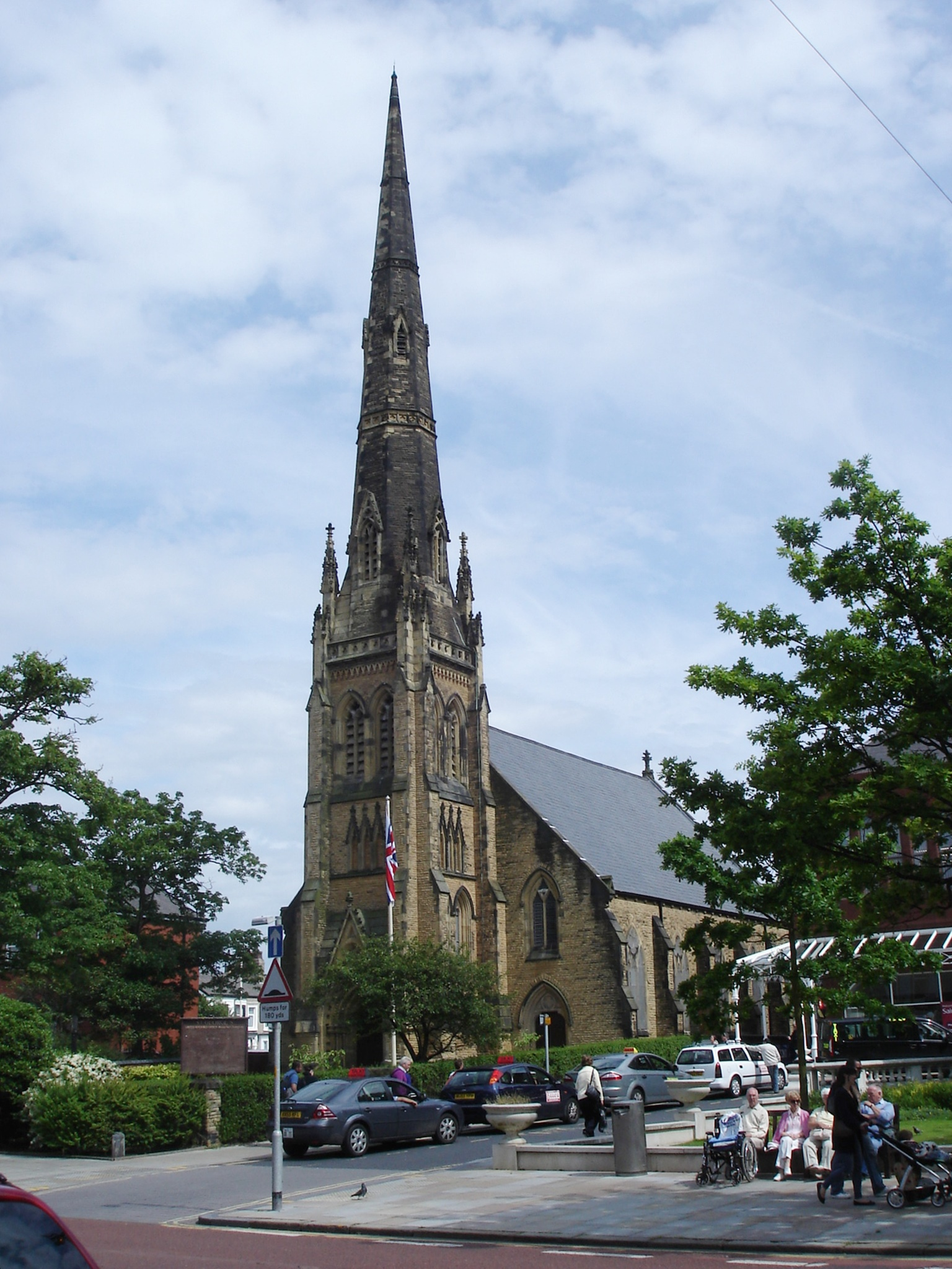 St George's United Reform Church, Lord St, Southport